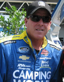 Ron Hornaday Jr. posing with a fan at the 2008 NASCAR Nationwide Series event at Mexico City